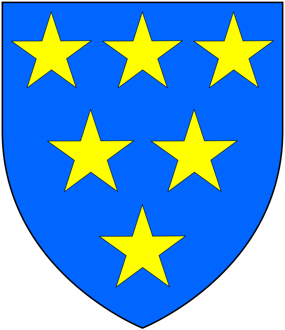 Arms of Welsh of Cathanger, Somerset: Azure, six mullets or, as depicted on monument to Lord Edward Seymour (c.1528-1593), in Berry Pomeroy Church, Devon, husband of Margaret Walsh, a daughter and co-heir of John Welsh (alias Walshe etc.) of Cathanger, Fivehead, Somerset, Justice of the Common Pleas in 1563. Also arms of Walshe of Olveston, Gloucestershire and Walshe/Welshe of Alverdiscott, Devon.